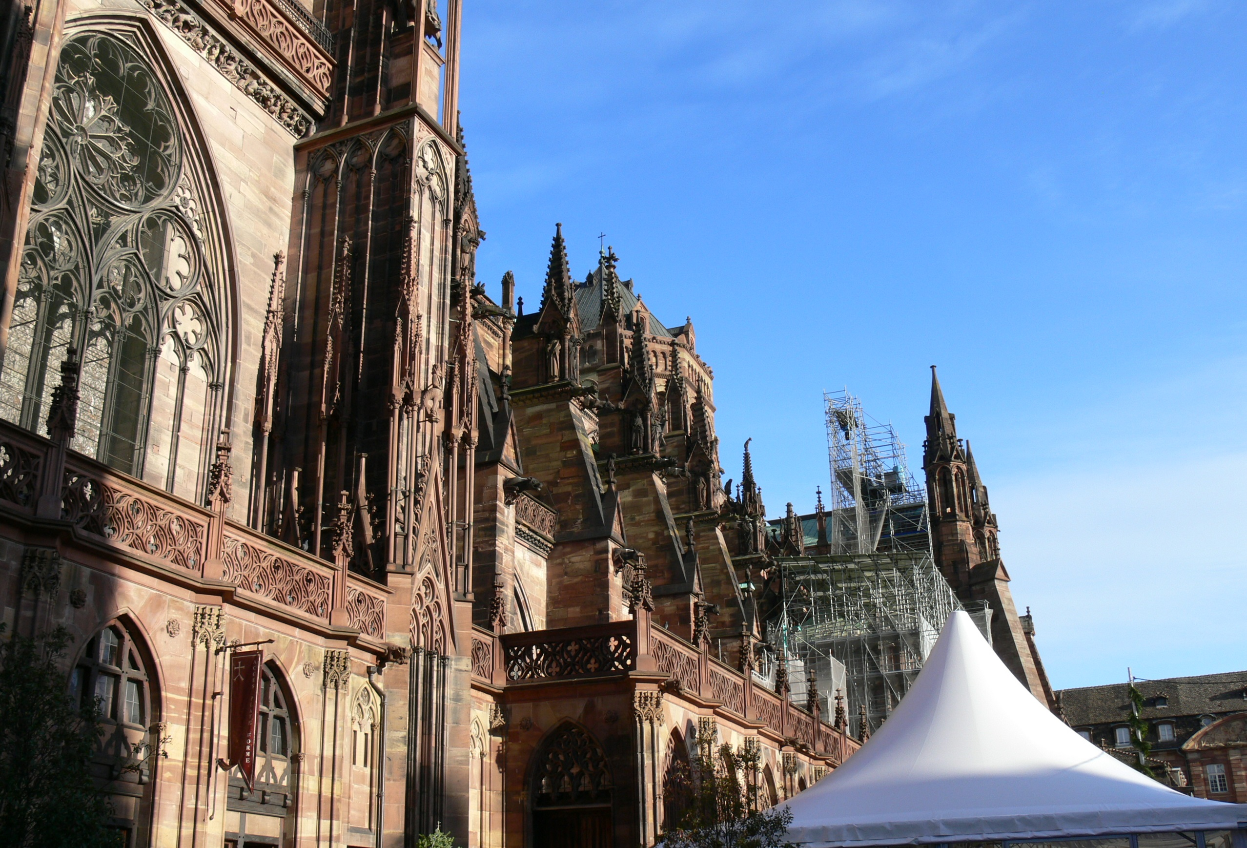 The Strasbourg Cathedral in restoration 2011